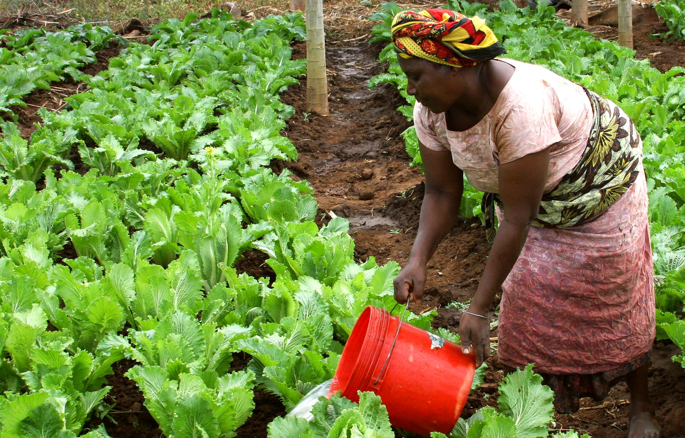 Woman watering crops in Morogoro, Tanzania